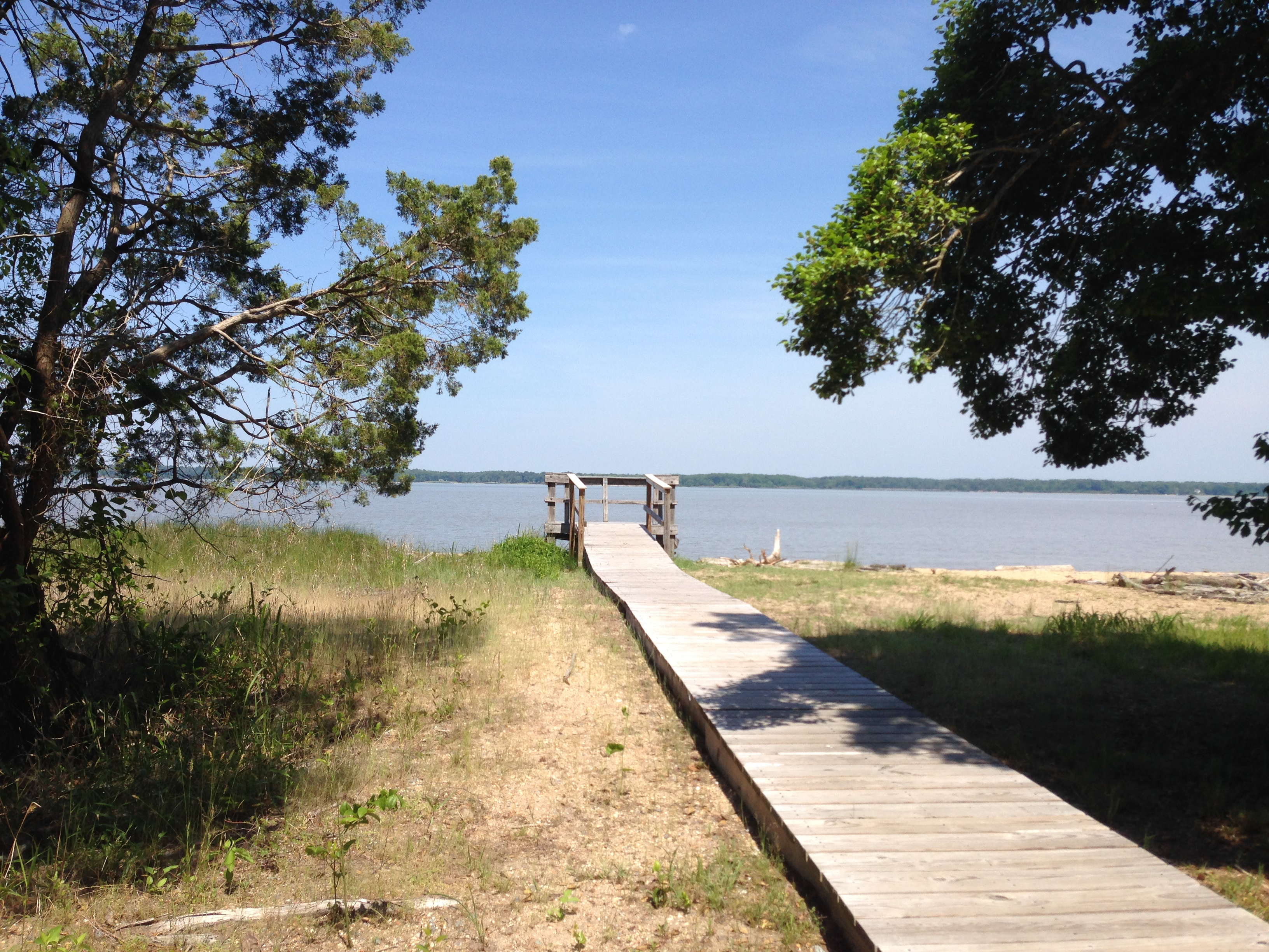 Photo of boardwalk leading to the Potomac River at Caledon State Park, Virginia, USA